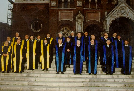 Professors of University Szeged